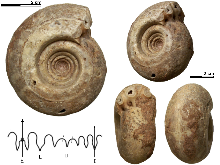 Ammonite (goniatite) belonging to genus Metalegoceras, from East Timor. The sutural pattern is reported (E= external (ventral) lobe; L= lateral lobe; U = umbilical lobes; I= internal (dorsal) lobe. The specimen is a phragmocone. Maximum diameter is 8.4 cm; maximum whorl thickness is 4.4 cm